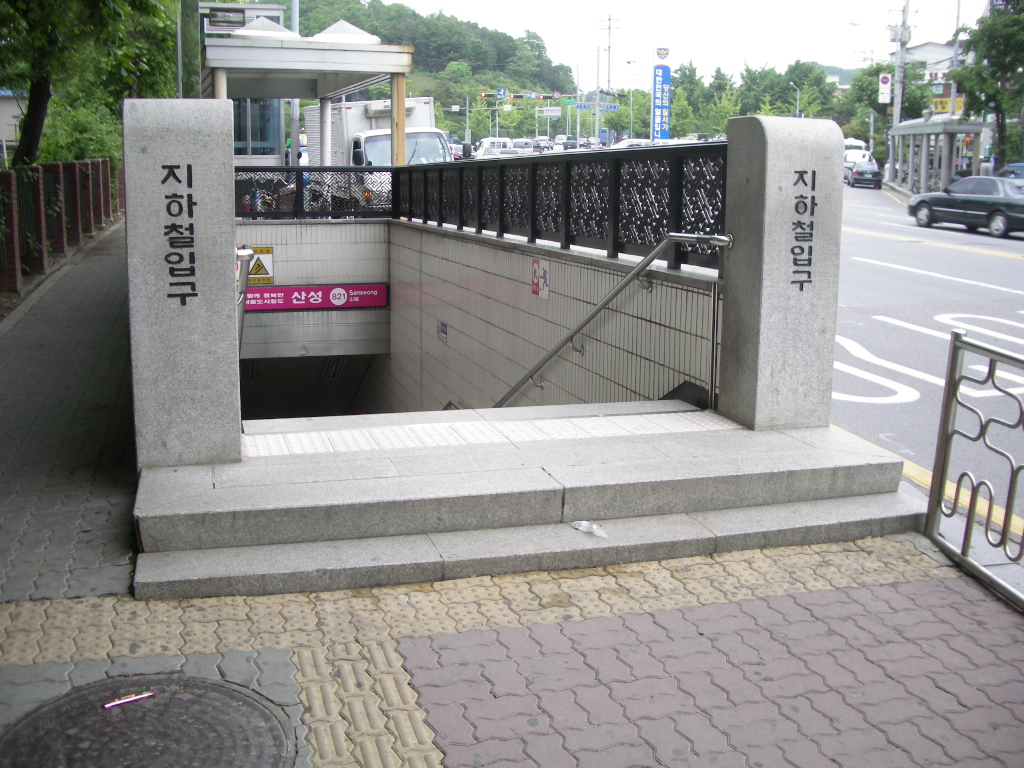 The no.3 entrance to Sanseong Station